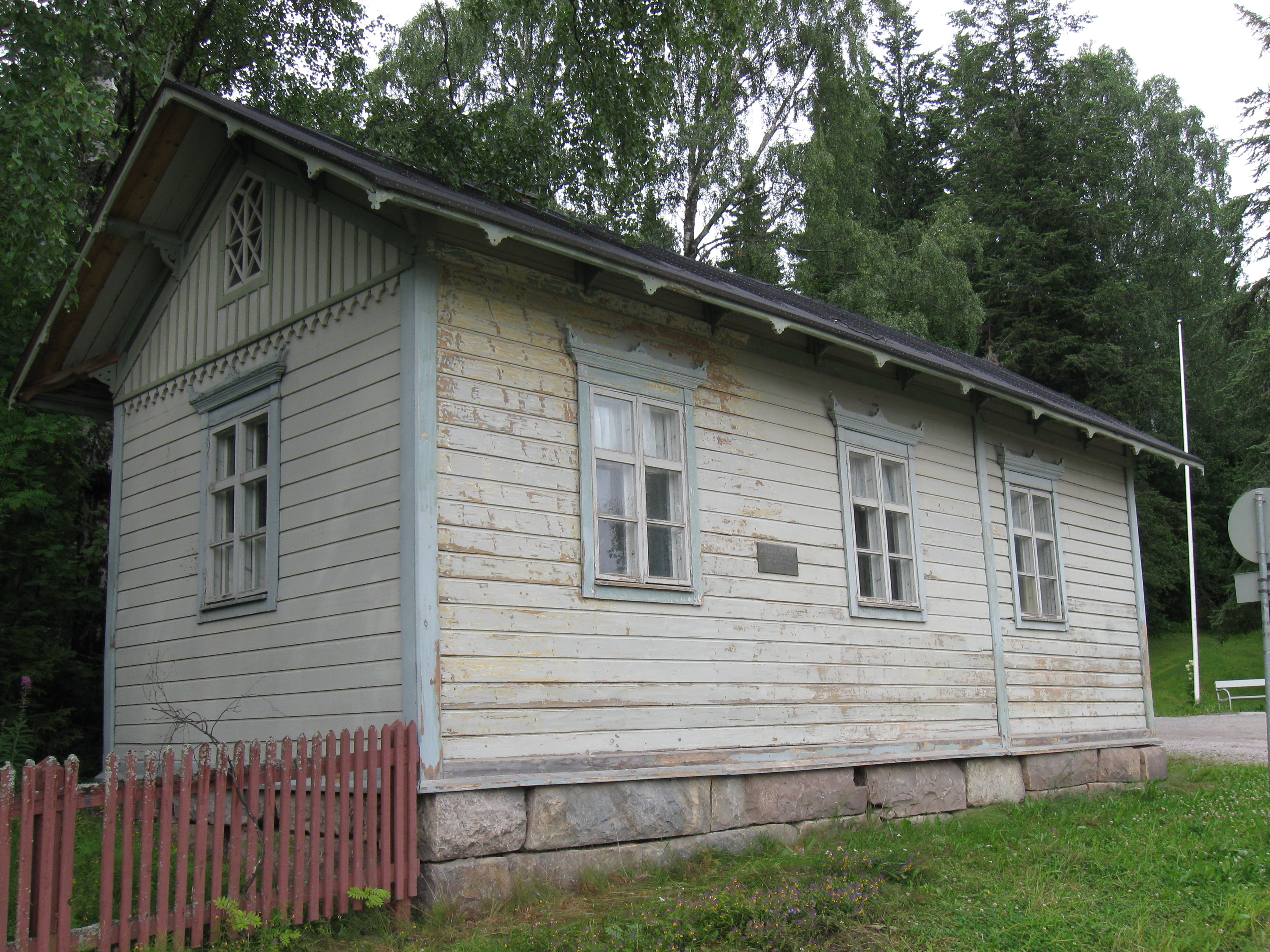 The so called "Lussitupa" built for the supervisor of the Ämmäkoski lock of the tar boat canal in Kajaani, Finland.